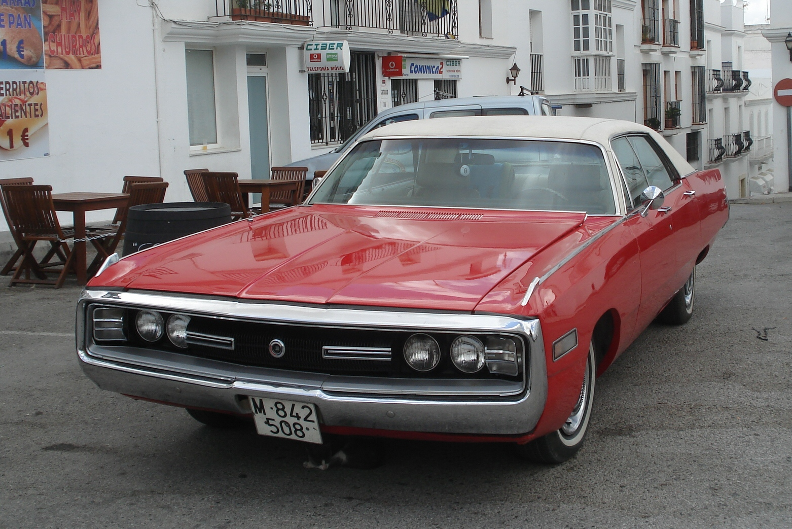 1970 Chrysler 300 4-door hardtop